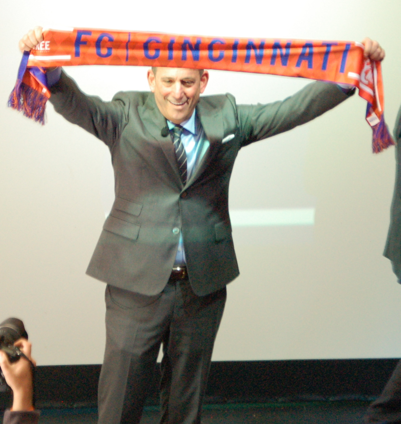 Don Garber Taken at the FC Cincinnati #MLS2CINCY Town Hall with Don Garber at the Woodward Theater in Over-the-Rhine on November 29, 2016.